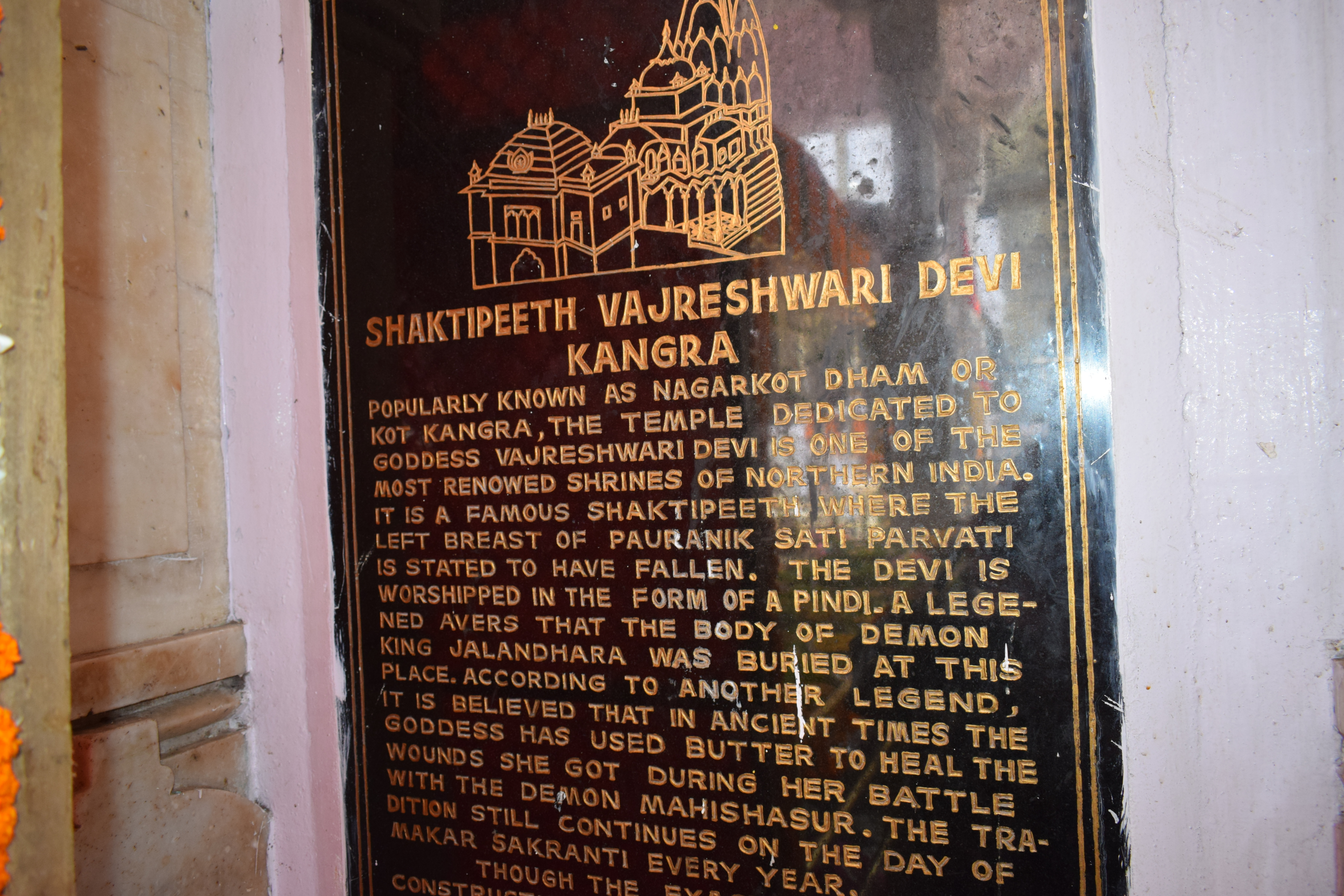 Vajreshwari Devi Shaktipeeth Kangra